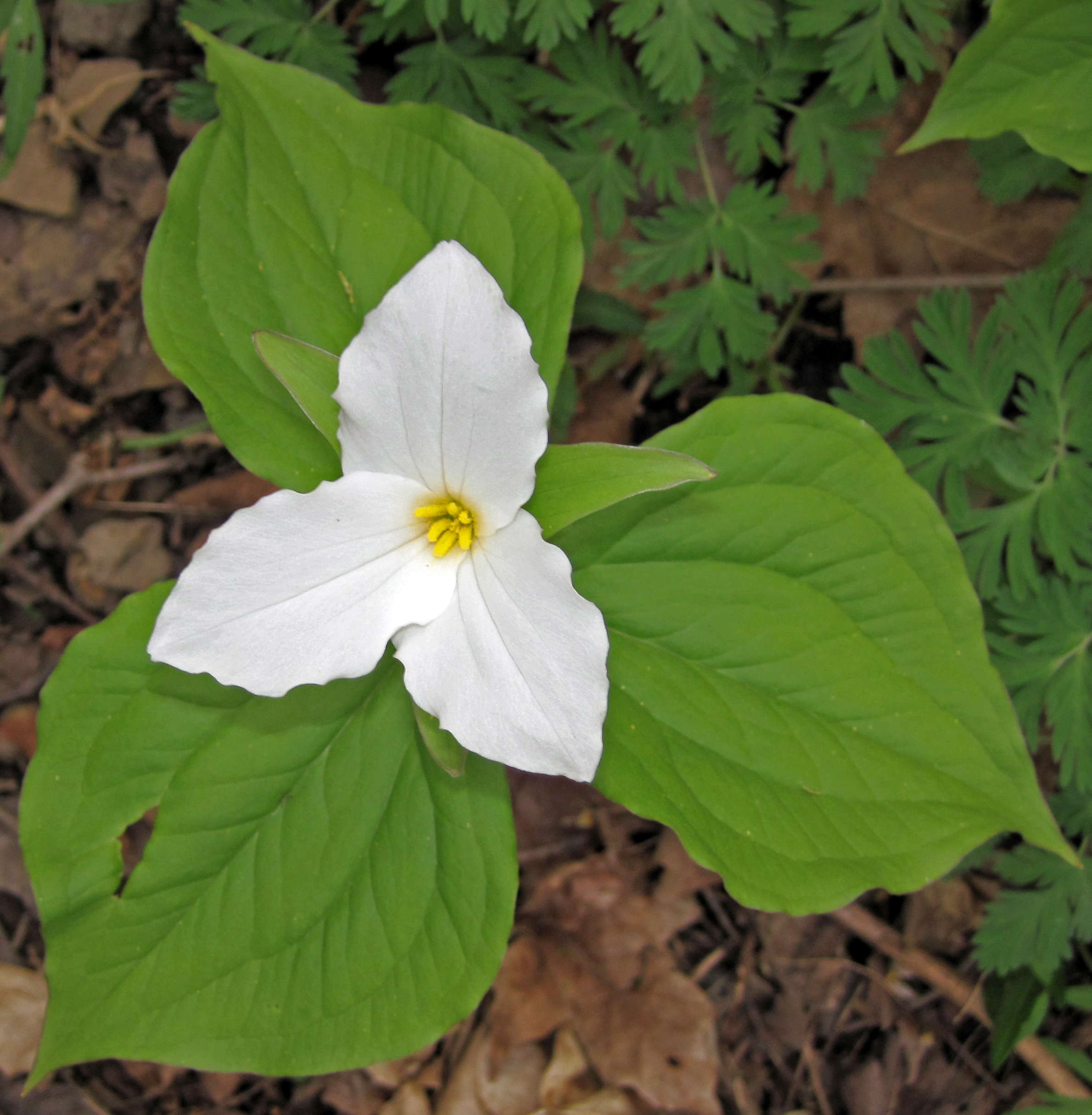 Trillium grandiflorum Michaux, 1803 - white trillium in Ohio, USA. (15 April 2017) Plants are multicellular, photosynthesizing eucaryotes. Most species occupy terrestrial environments, but they also occur in freshwater and saltwater aquatic environments. The oldest known land plants in the fossil record are Ordovician to Silurian. Land plant body fossils are known in Silurian sedimentary rocks - they are small and simple plants (e.g., Cooksonia). Fossil root traces in paleosol horizons are known in the Ordovician. During the Devonian, the first trees and forests appeared. Earth's initial forestation event occurred during the Middle to Late Paleozoic. Earth's continents have been partly to mostly covered with forests ever since the Late Devonian. Occasional mass extinction events temporarily removed most of Earth's plant ecosystems - this occurred at the Permian-Triassic boundary (251 million years ago) and the Cretaceous-Tertiary boundary (65 million years ago). The most conspicuous group of living plants is the angiosperms, the flowering plants. They first unambiguously appeared in the fossil record during the Cretaceous. They quickly dominated Earth's terrestrial ecosystems, and have dominated ever since. This domination was due to the evolutionary success of flowers, which are structures that greatly aid angiosperm reproduction. White trillium is native to eastern North America. Classification: Plantae, Angiospermophyta, Liliales, Melanthiaceae Locality: Rock Cut - trailside along bike/hiking path (= former railroad tracks), downhill from modern railroad tracks, south of Copeland Island & south-southeast of the town of Dresden, southern edge of the Muskingum River Valley, northern Muskingum County, eastern Ohio, USA (~vicinity of 40° 04’ 21.44” North latitude, ~81° 58’ 57.00” West longitude) See info. at